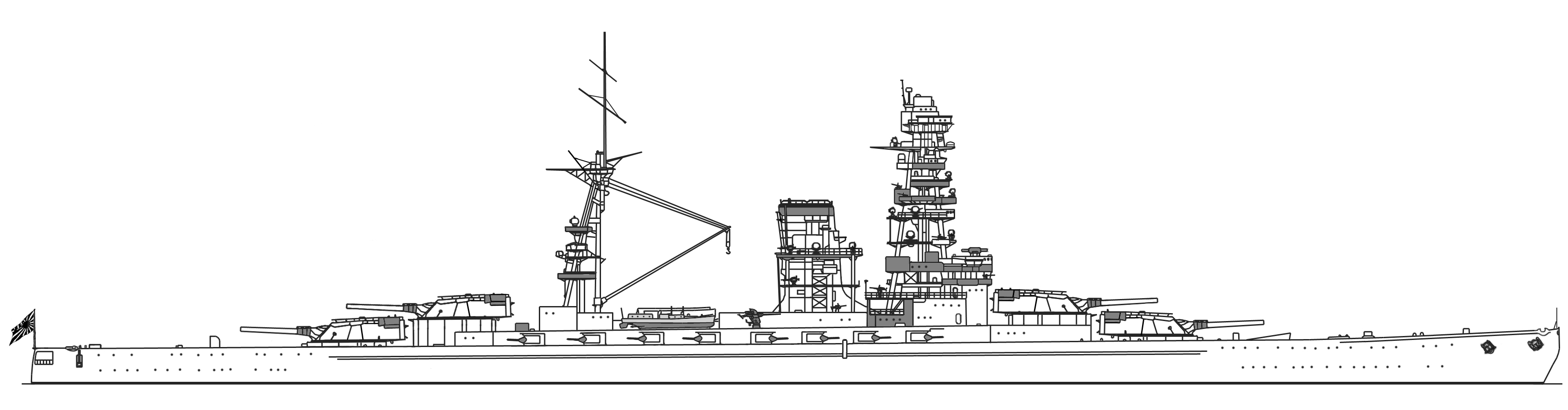 Imperial Japanese Navy's heavy armored battlecruiser plan "Project 13"